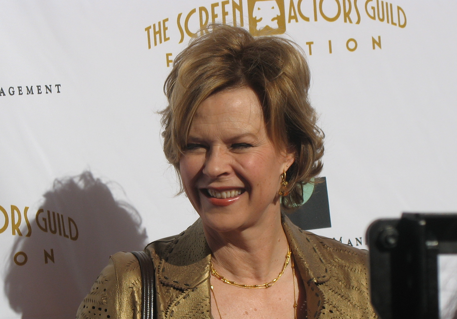 JoBeth Williams at the SAG Foundation brunch, January 7, 2006.